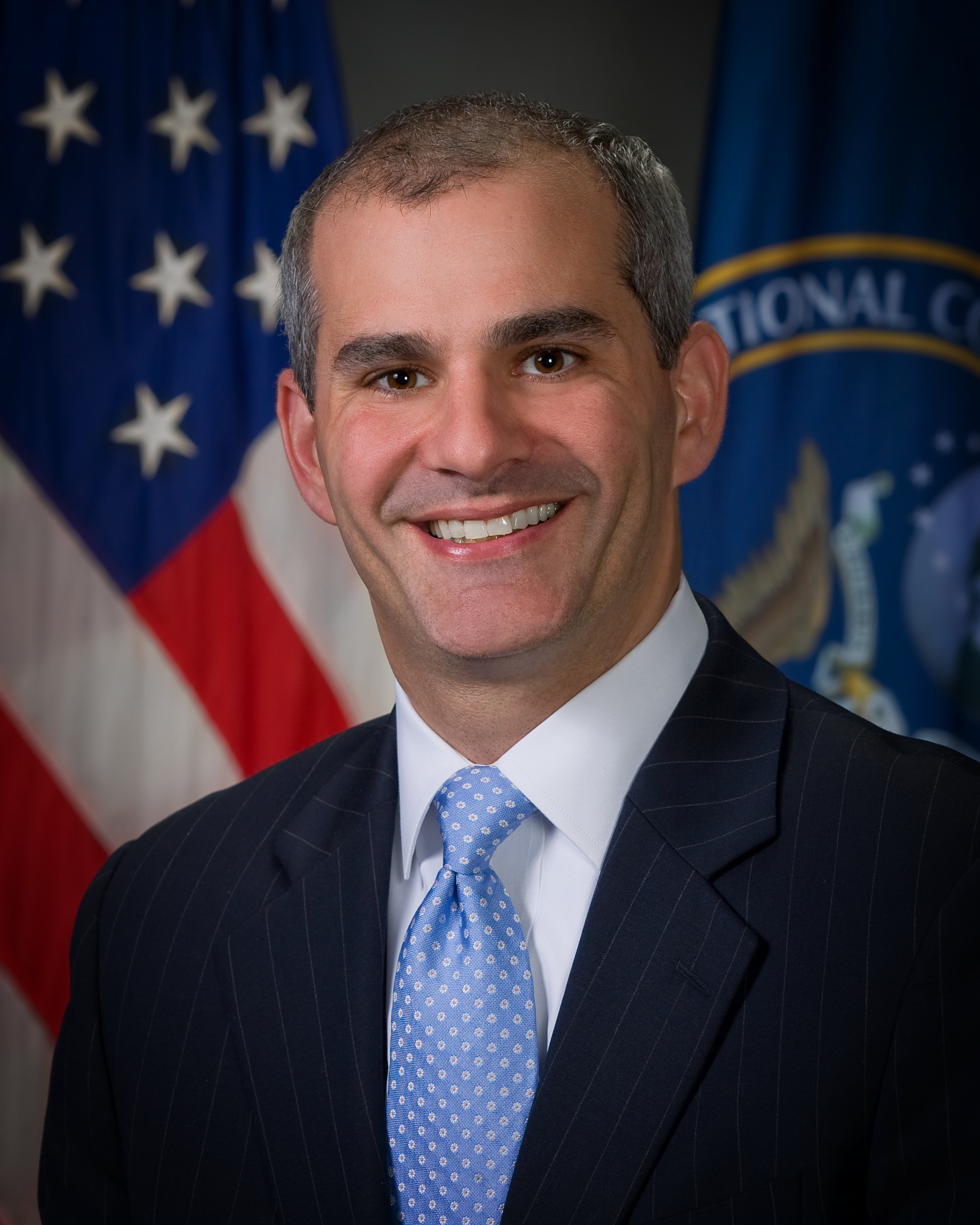 Official portrait of the Director of the United States National Counterterrorism Center Michael Leiter.